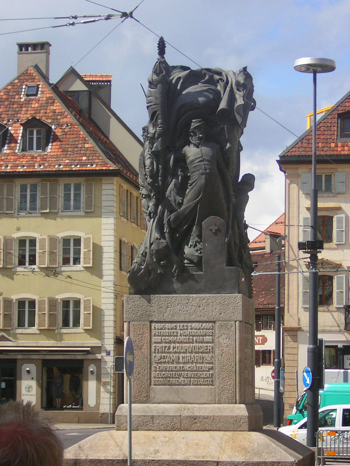 A monument in La Chaux-de-Fonds commemorating the republican coup of 1848 in the Canton of Neuchâtel, and its leaders Fritz Courvoisier and Ami Girard. The inscription reads: Les patriotes montagnards commandés par Fritz Courvoisier et Ami Girard s'emparent du château de Neuchatel et renversent le gouvernement royaliste ("The patriots from the mountains commanded by Fritz Courvoisier and Ami Gerard seized the Castle of Neuchâtel and overthrew the royalist government")